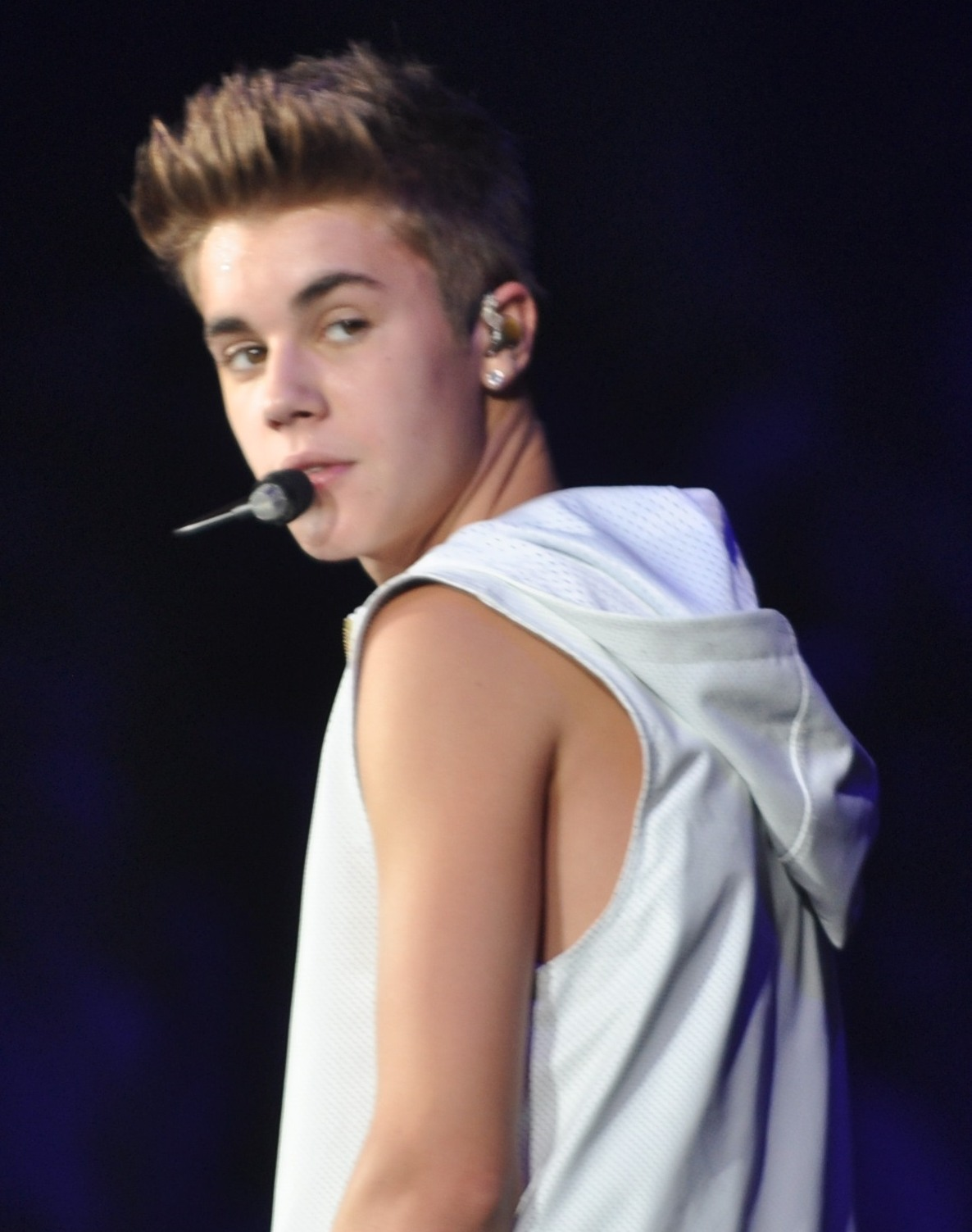 Justin Bieber performing Believe Tour in October 20, 2012.